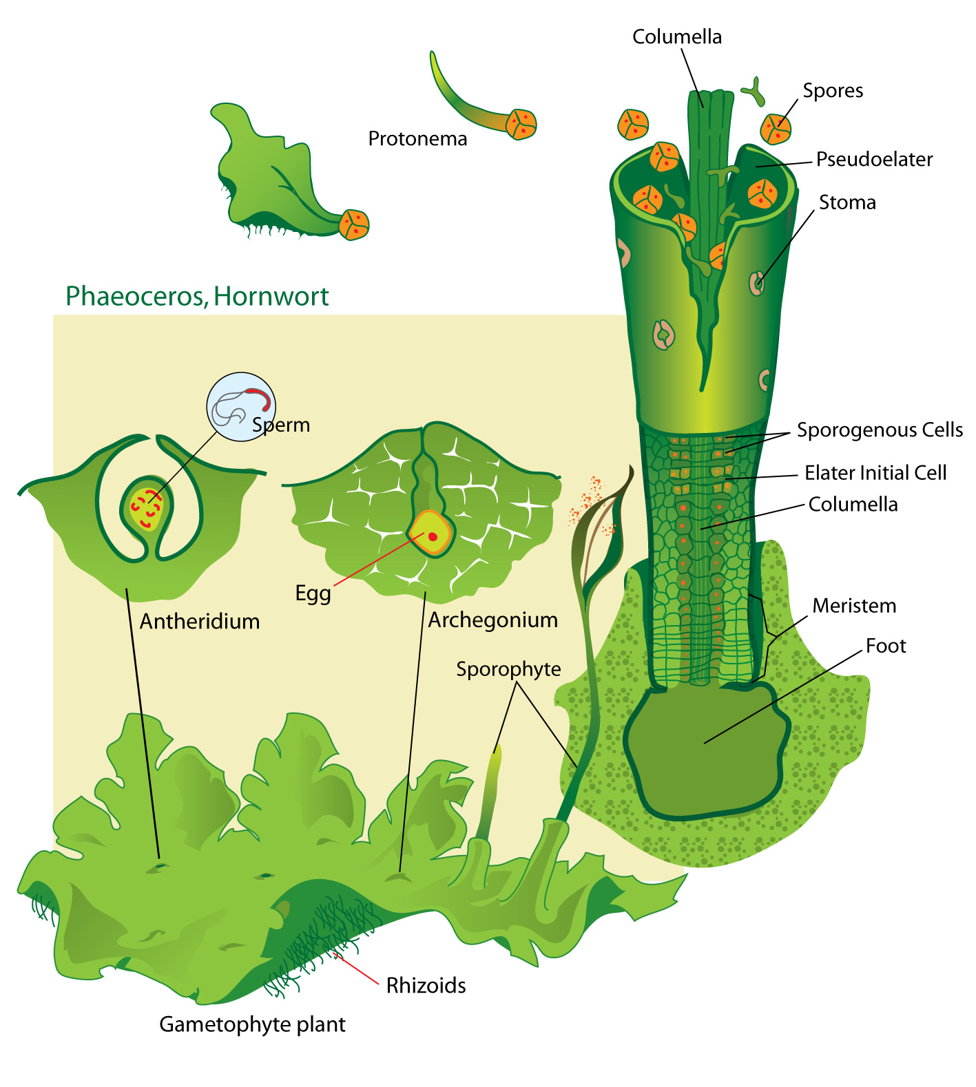 The image shows the main parts of a hornwort, a plant taxa related to mosses. I made the image based on the graphics found here together with some photos found here here Imade the file on Adobe Illustrator and I am releasing it as public domain.LadyofHats 19:28, 14 October 2005 (UTC).